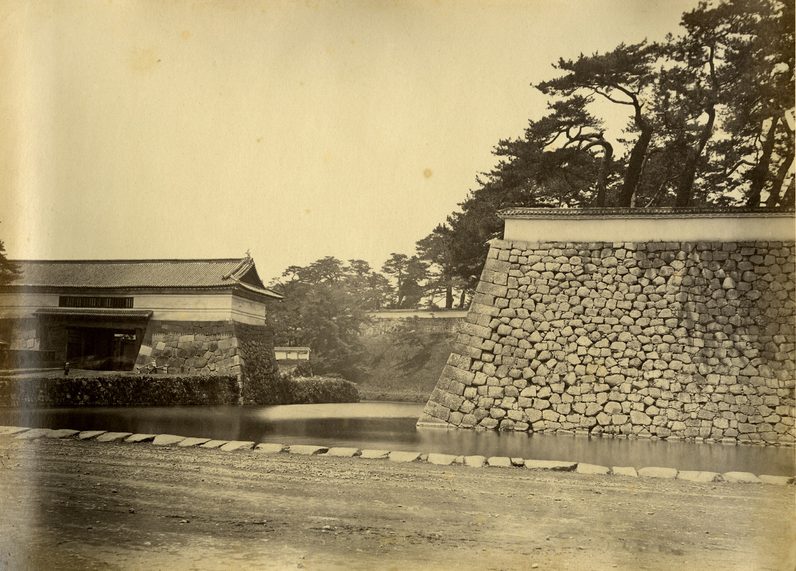 GATEWAY OF THE TYCOON’S PALACE YEDO. A CAUSEWAY leads to the enclosure bounding the Tycoon’s palace grounds, and there is an imposing gateway, flanked on either side by buildings which form a courtyard; over the gates, in copper enamel, is the crest of the owner—an orange on a branch with three leaves. It was near this spot that the Gotairo, or Regent of the Empire, was set upon and assassinated by a band of ruffians, in broad daylight, on the 24th March 1860; and although surrounded by his own retainers, and in his own norimon, Iko-mono-no-kami (the Gotairo) was not only killed but his head was carried off by an assailant before he could be arrested.